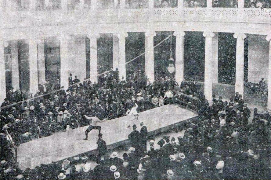 The Olympic games at Athens, 1906 (1906) Author: Sullivan, James Edward, 1862-1914 Subject: Olympic Games (1906 : Athens, Greece) Publisher: New York, American Sports Publishing Company Language: English Call number: 7740541 Digitizing sponsor: Sloan Foundation Book contributor: The Library of Congress Collection: americana [Open Library icon] This book has an editable web page on Open Library.